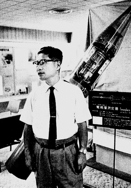 Hideo Itokawa circa 1961